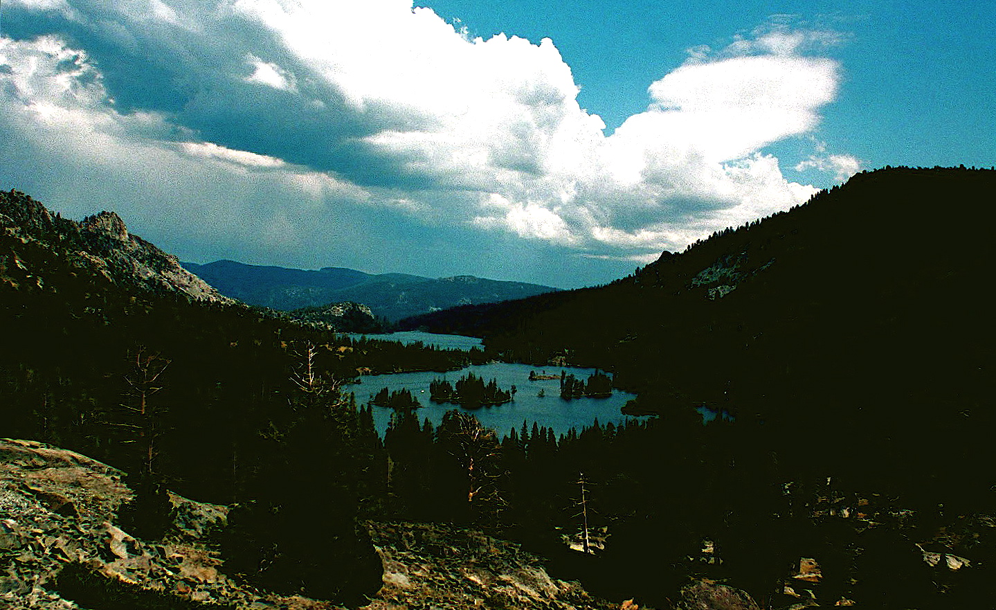 Echo Lakes near Lake Tahoe Ca